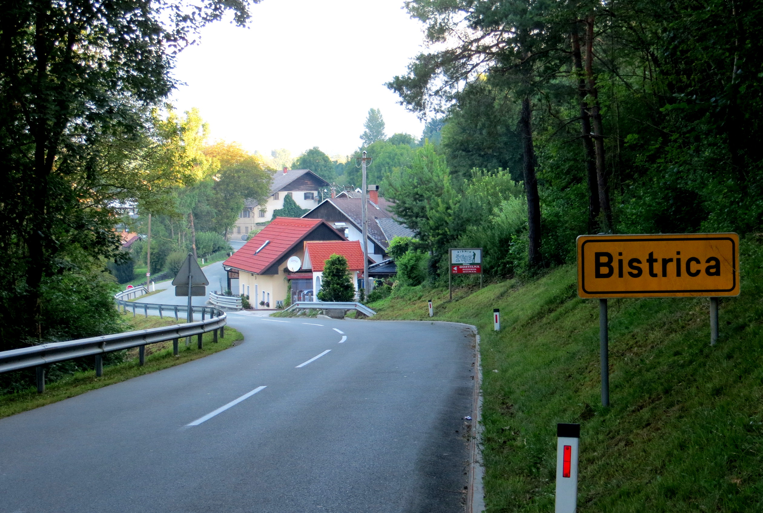 Bistrica, Municipality of Naklo, Slovenia